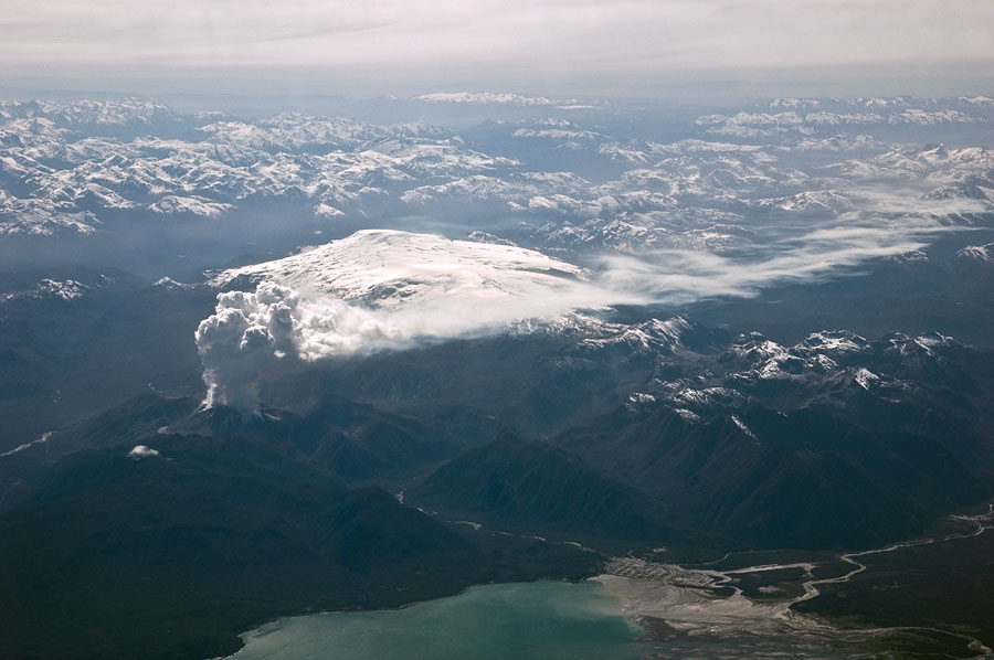 Overview of the Chaitén volcano surroundings. In the background the massive Michinmávida volcano, in the lower foreground (grey area) the town of Chaitén